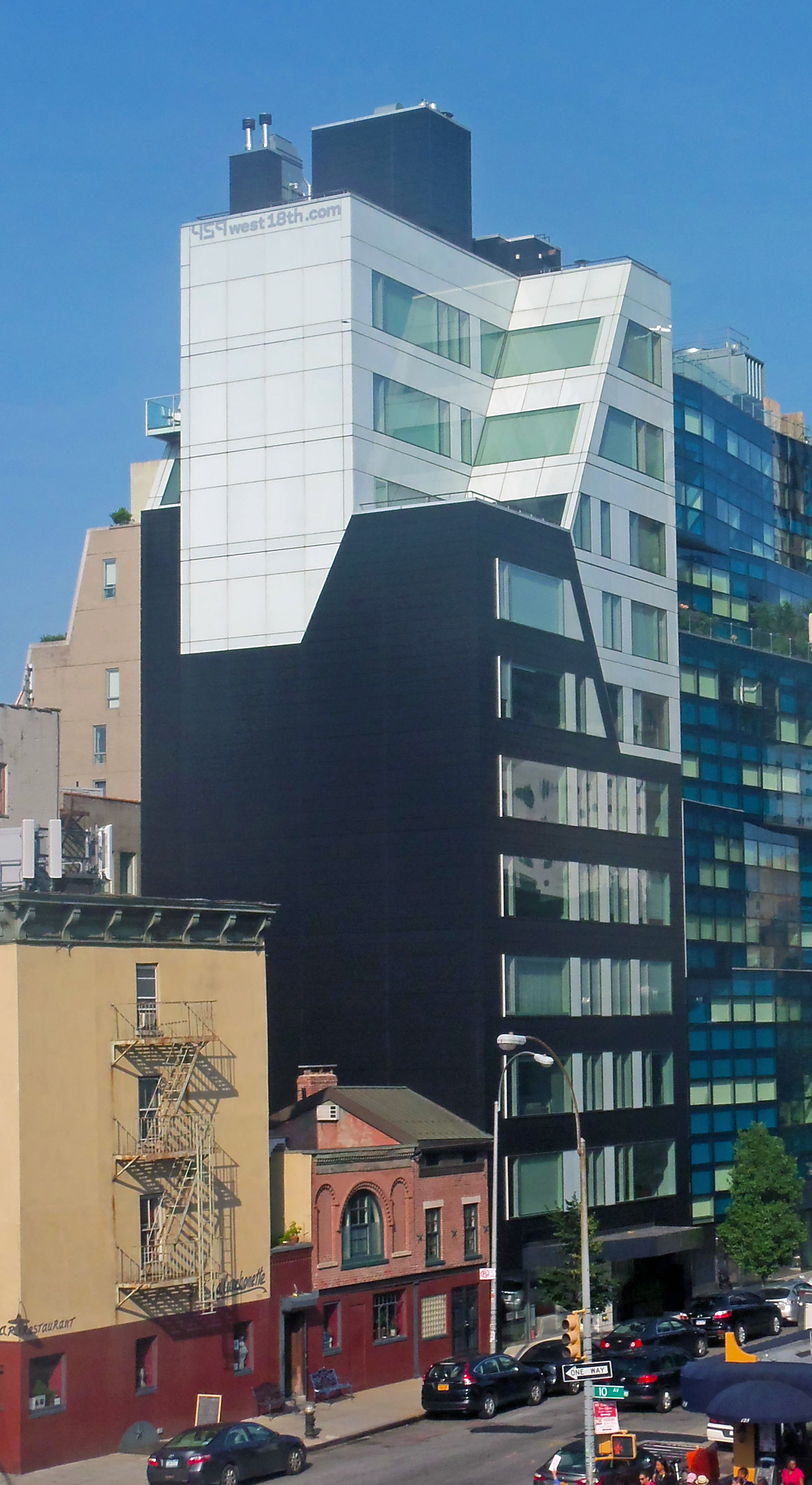 459 West 18th, Chelsea, Manhattan, seen from the nearby High Line